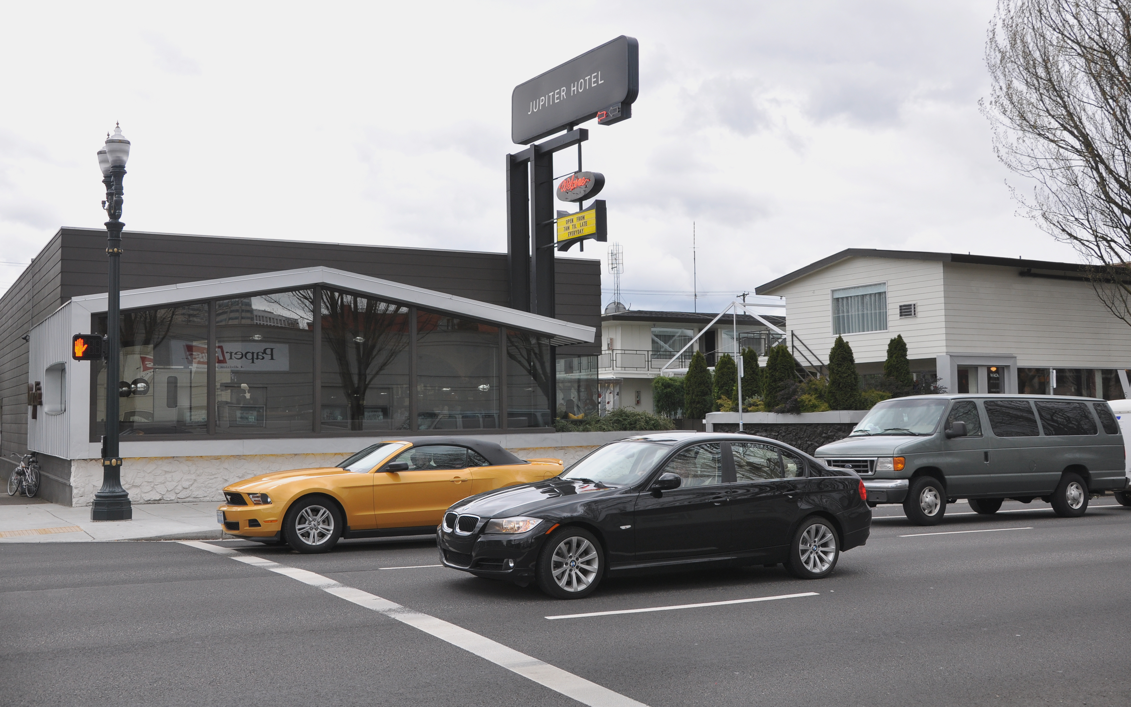 Jupiter Hotel in Portland in the U.S. state of Oregon